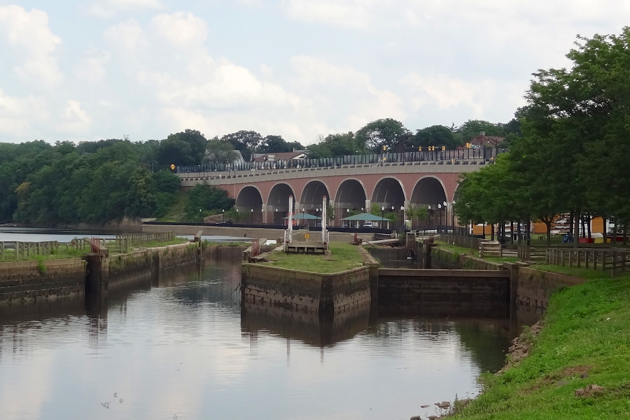 Final Lock at New Brunswick, New Jersey of the Delaware and Raritan Canal